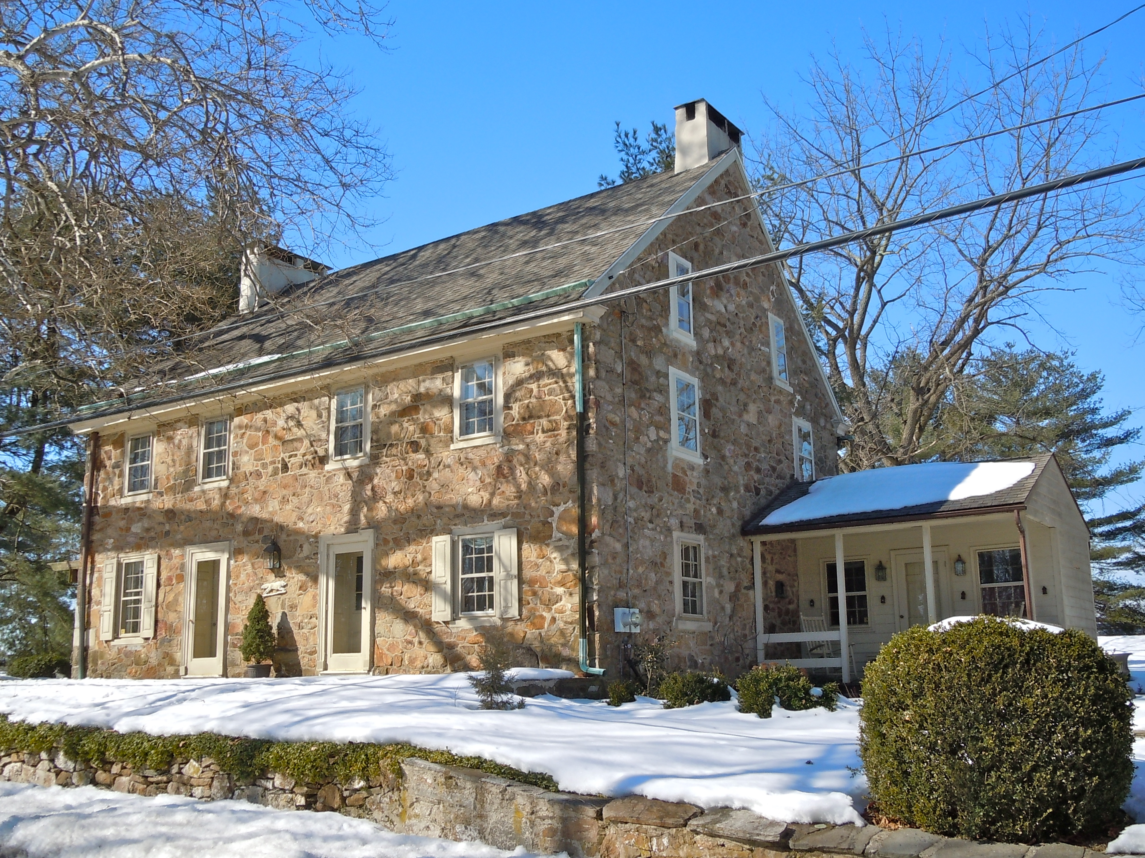 Ellis Williams House on the NRHP since August 11, 2004, at 1711 East Boot Road, East Goshen Township, Chester County, Pennsylvania - east of West Chester. Note - if you are trying to get here - Boot Road is not hard to find, but the right Boot Road is!